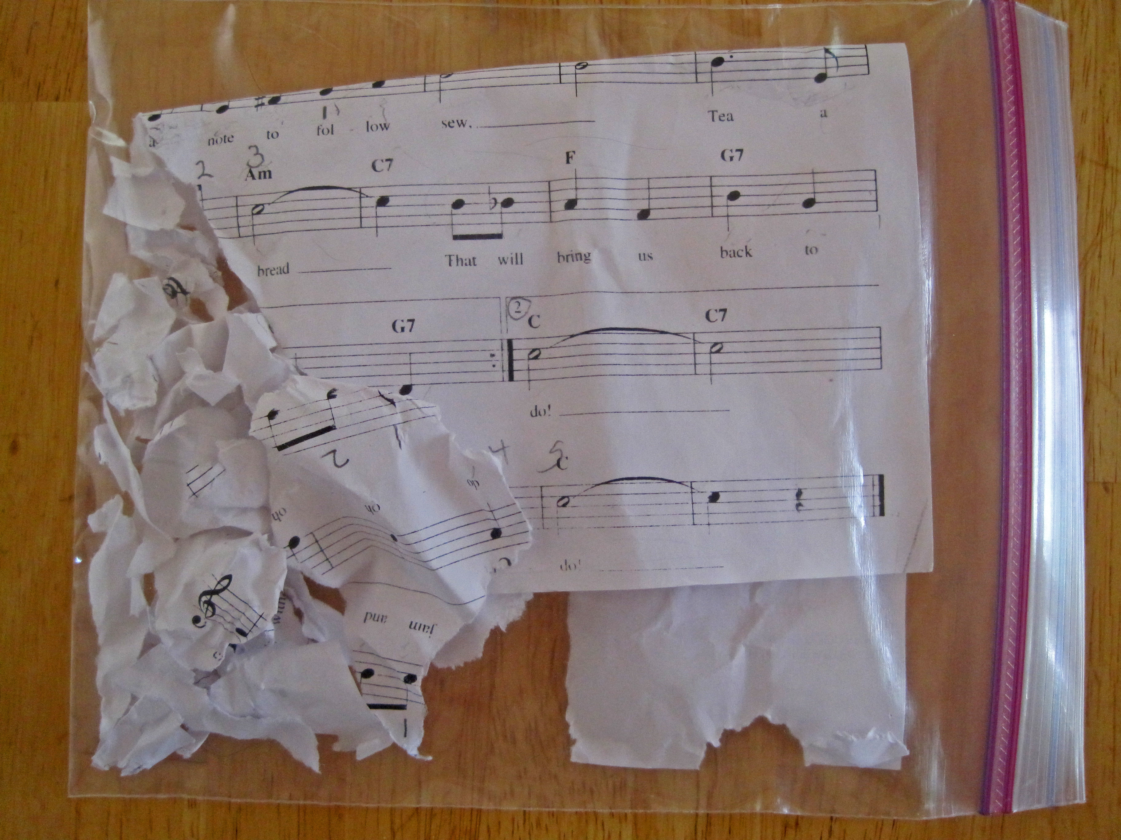 Music allegedly eaten by a dog in a plastic bag